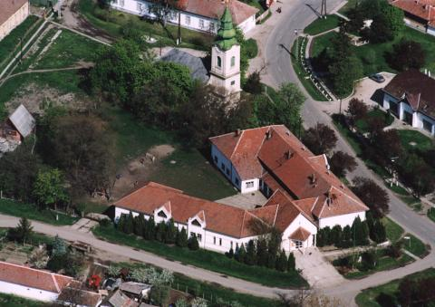 Tiszaderzs, Hungary, aerialphotgraphy